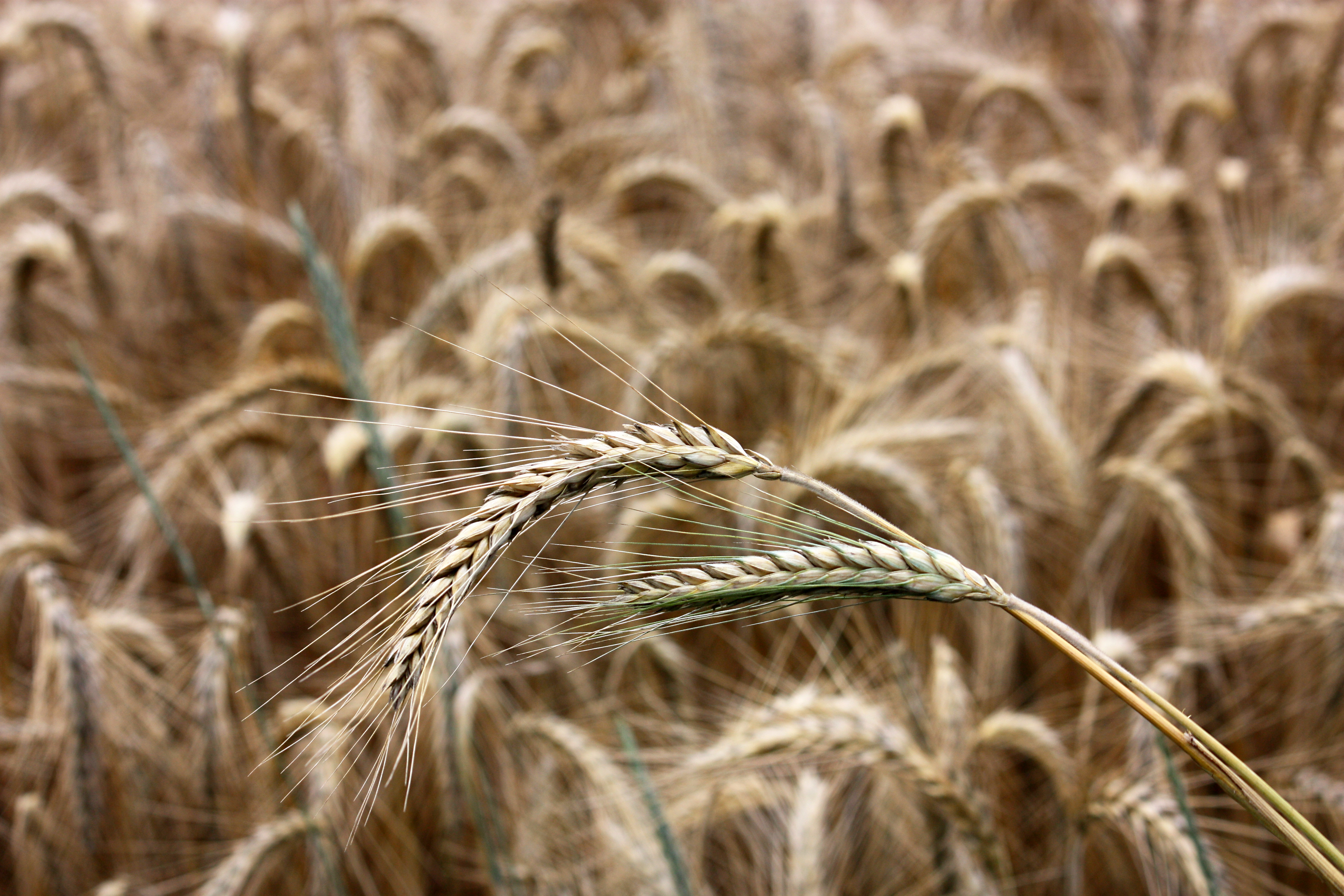 Ears of rye